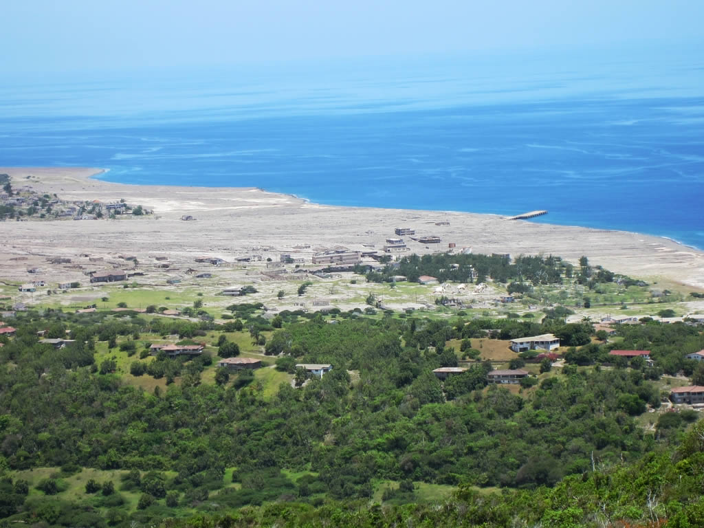 Montserrat's old capital city Plymouth was covered by ash and abandoned in 1997.